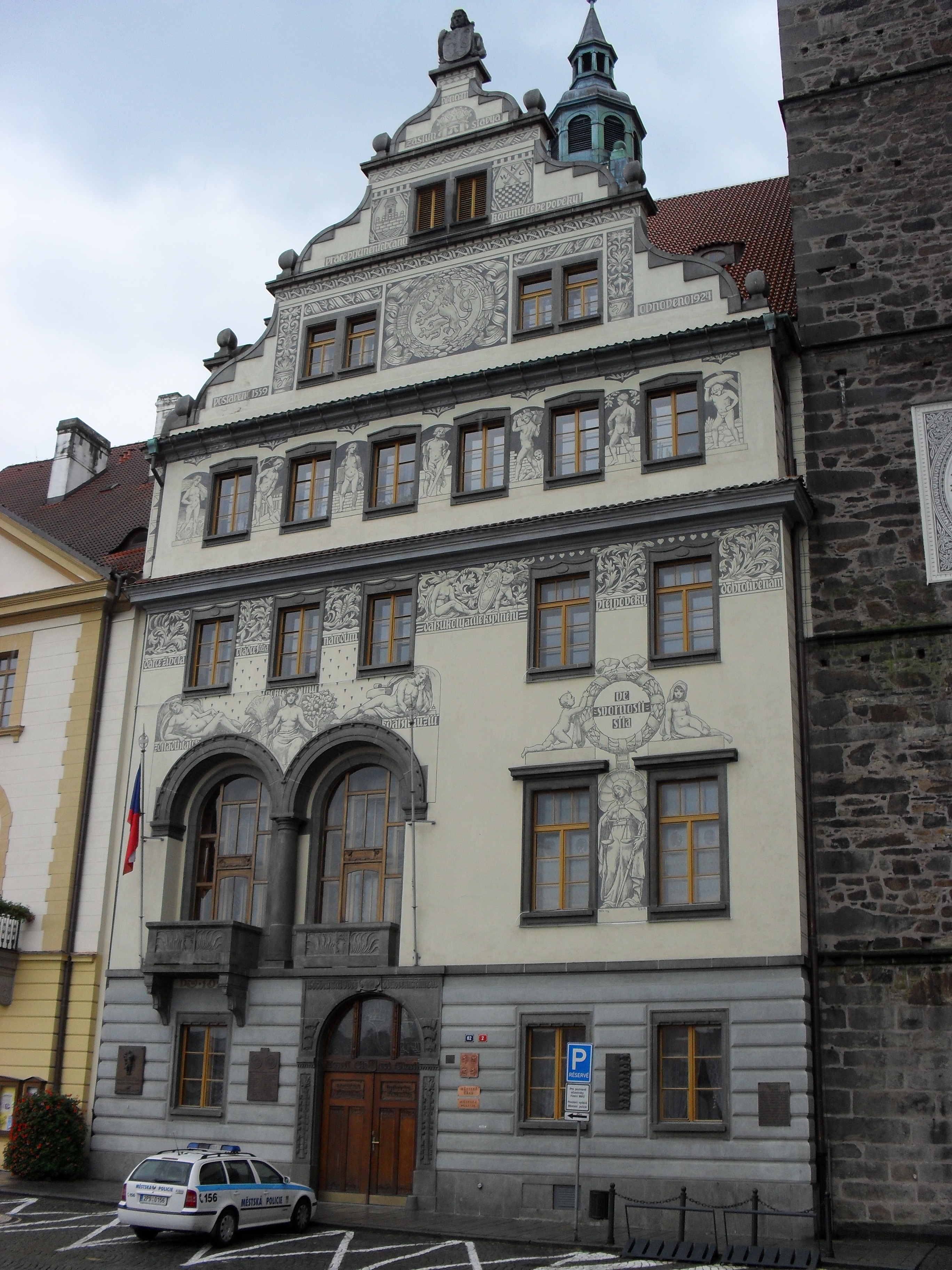 Radnice města Klatovy